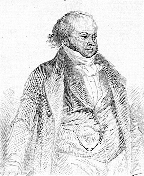 Louis Véron (1798 – 1867), director of the Paris Opera from 1831 to 1835